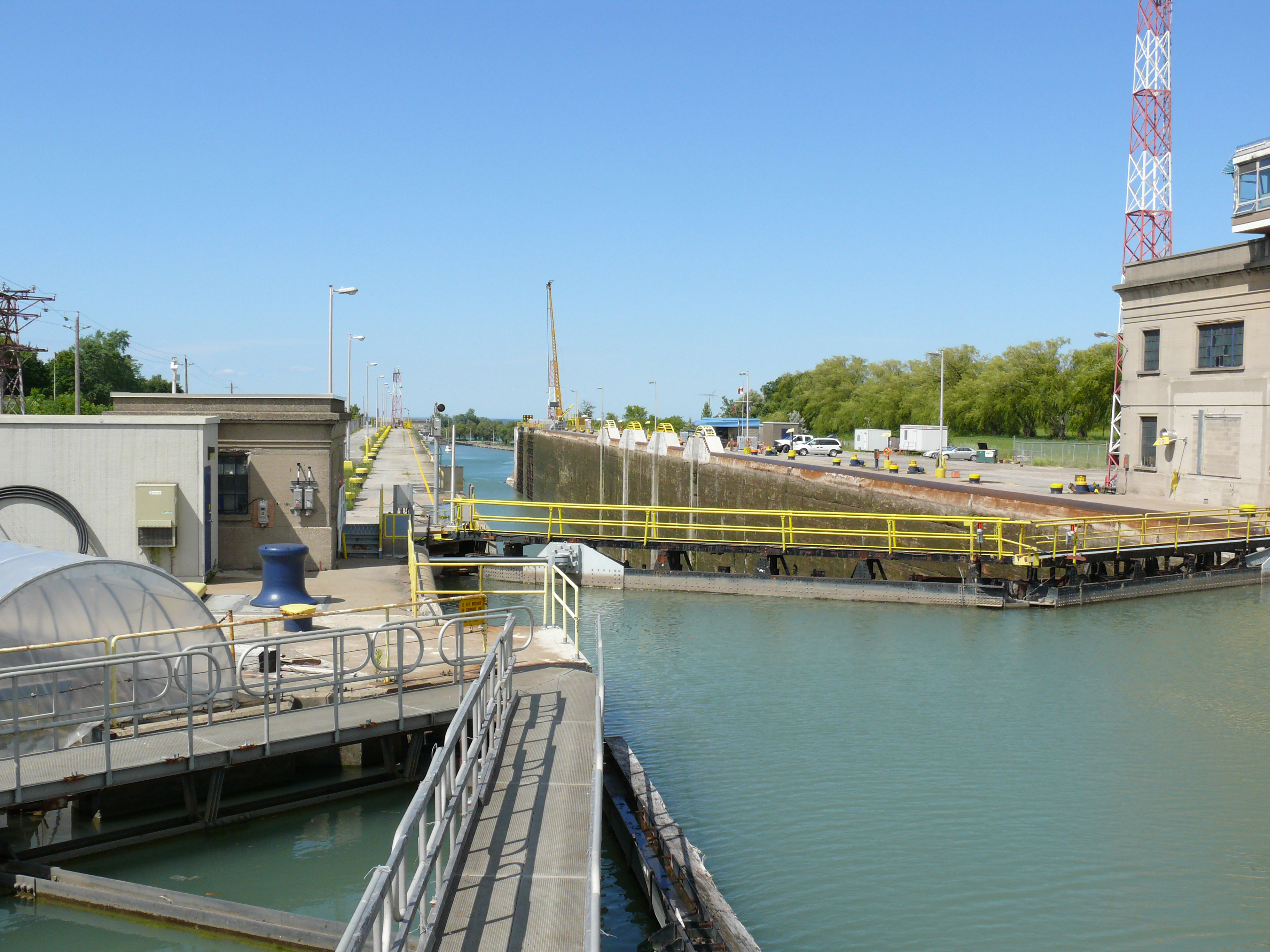 The Welland Canal's Lock 7 at Thorold, Ontario. The Welland Canal is a ship canal in Canada, that runs 43,4 km (27.0 miles) from Port Colborne, Ontario on Lake Erie to Port Weller, Ontario on Lake Ontario. The canal is part of the St. Lawrence Seaway.